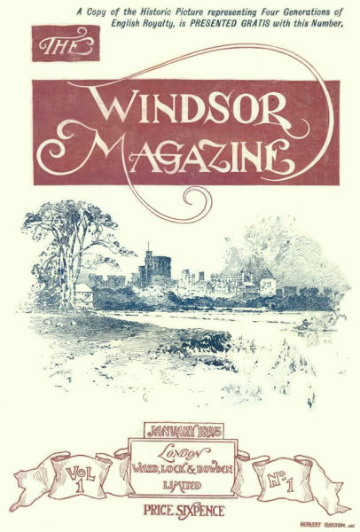 Front cover of the debut issue of The Windsor Magazine